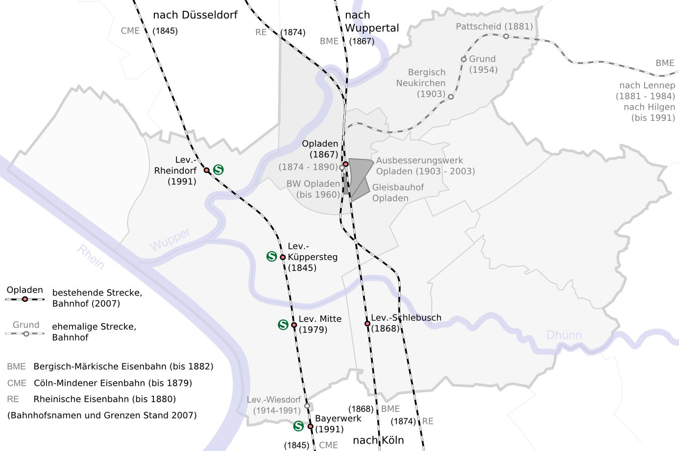 railway junction Opladen: former and still existing lines in Opladen and Leverkusen, stations and the former railway workshop. Dates show the year of opening; borders and station names as of 2007